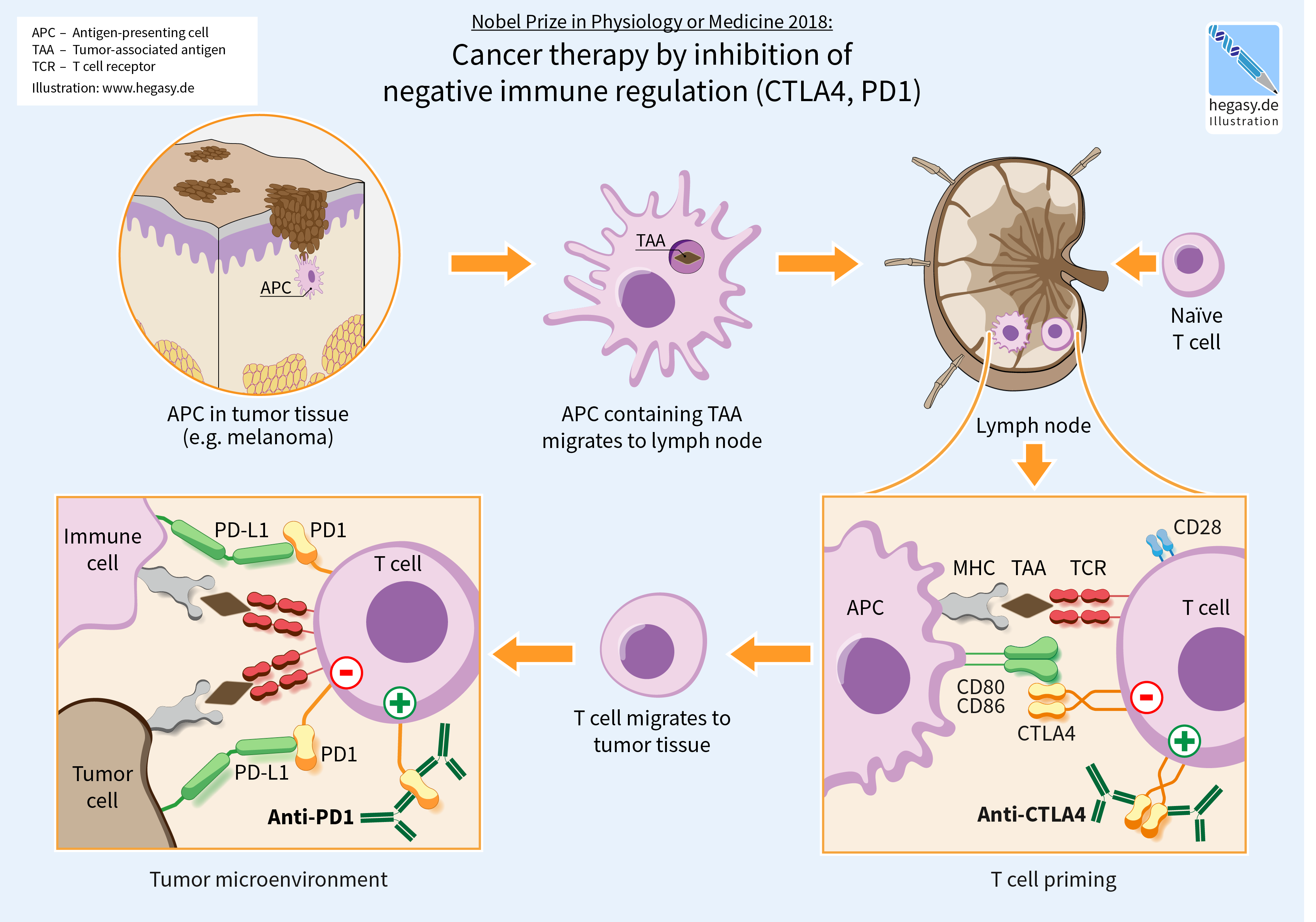 Tumor Immunology, Immune Checkpoints, Immunotherapy, Cancer, CTLA-4, PD-1, PD-L1, Lymph Node, Antibody, CD80, CD86, CD28, TCR, Tumor Associated Antigen, Microenvironment, TAA, MHC, Anti-PD1, Anti-CTLA4